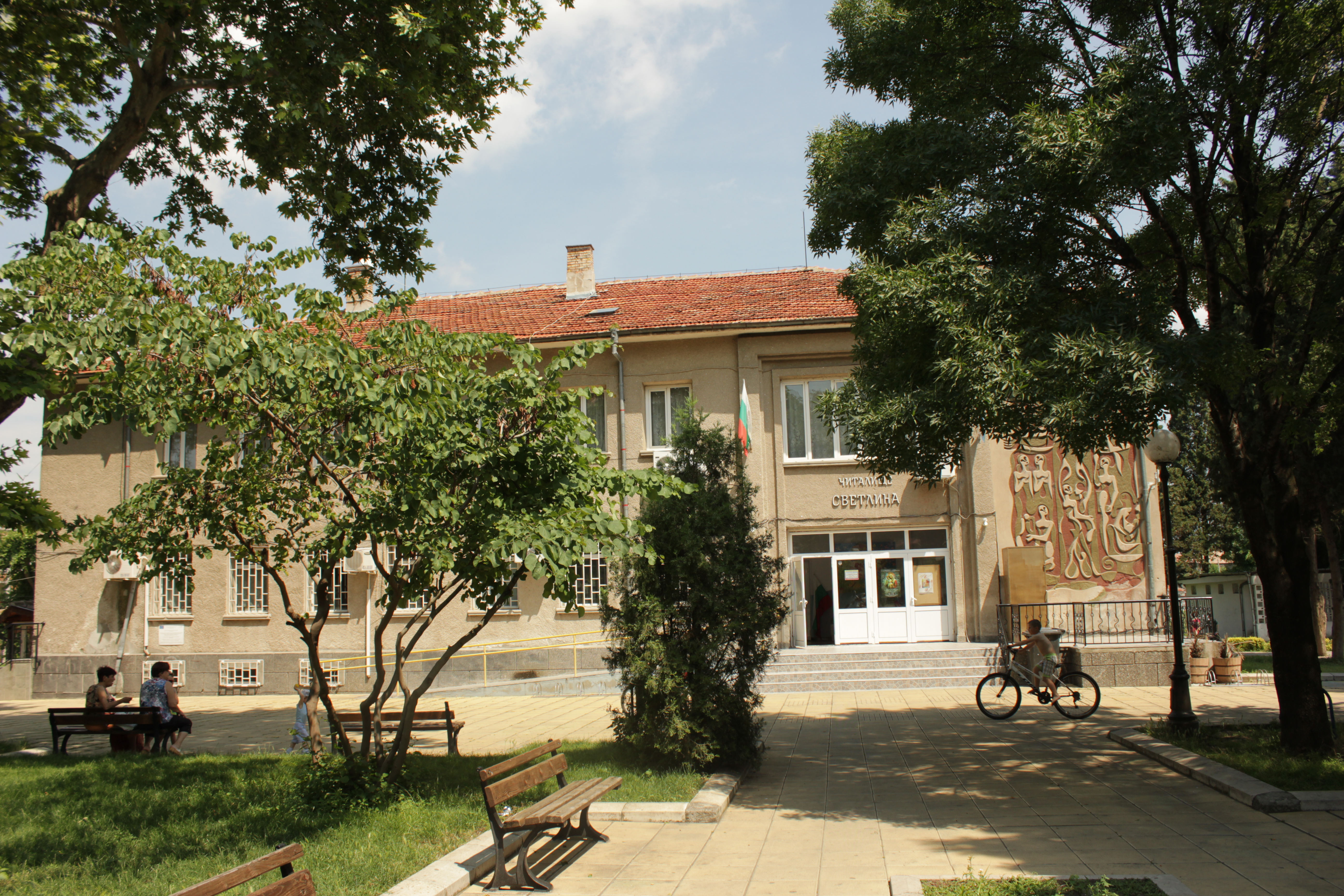 Chitalishte "Svetlina" in Pomorie